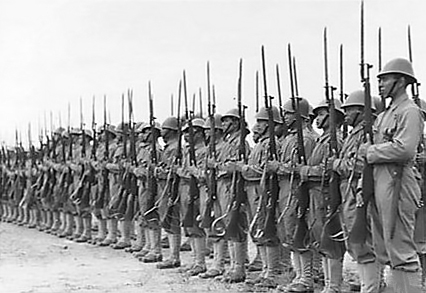 Australia 1943. A regiment of Netherlands East Indies Forces at the present during an investiture of decorations on members of the N.E.I. forces by Lieutenant Colonel N.L.W. van Straten, officer commanding N.E.I. forces in Australia